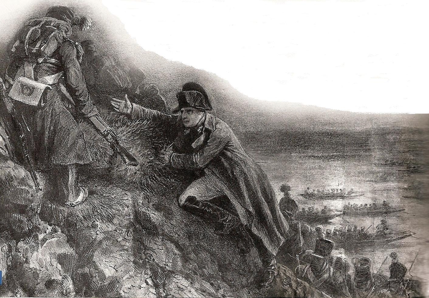 Napoleon arriving on Lobau island on the Danube (lithograph)